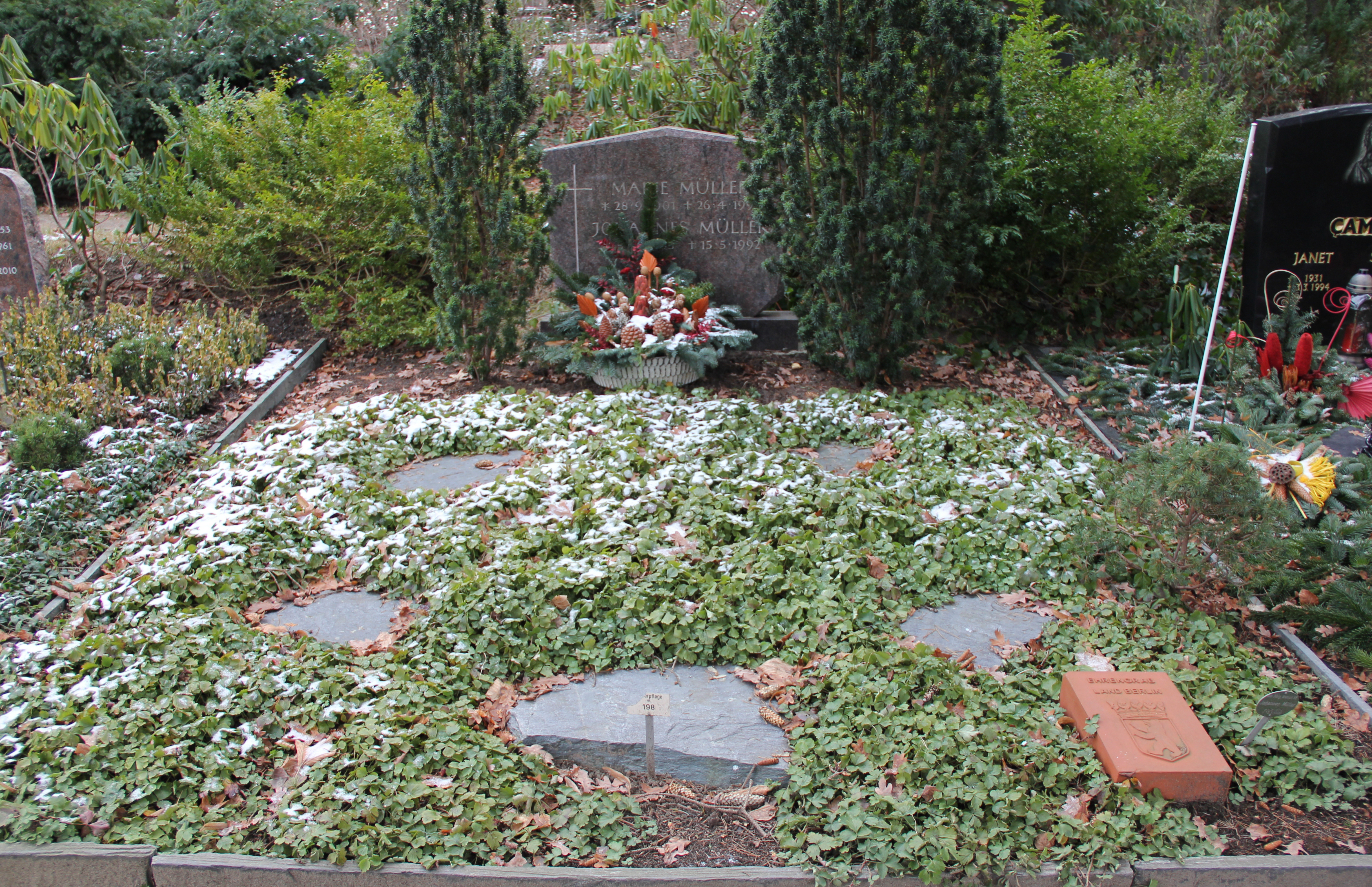 "Ehrengrab" (grave of honor), Johannes Müller, Röblingstraße 91, Berlin-Tempelhof, Germany Koordinate:52°27′14″N 13°21′39″E / 52.45389°N 13.36083°E